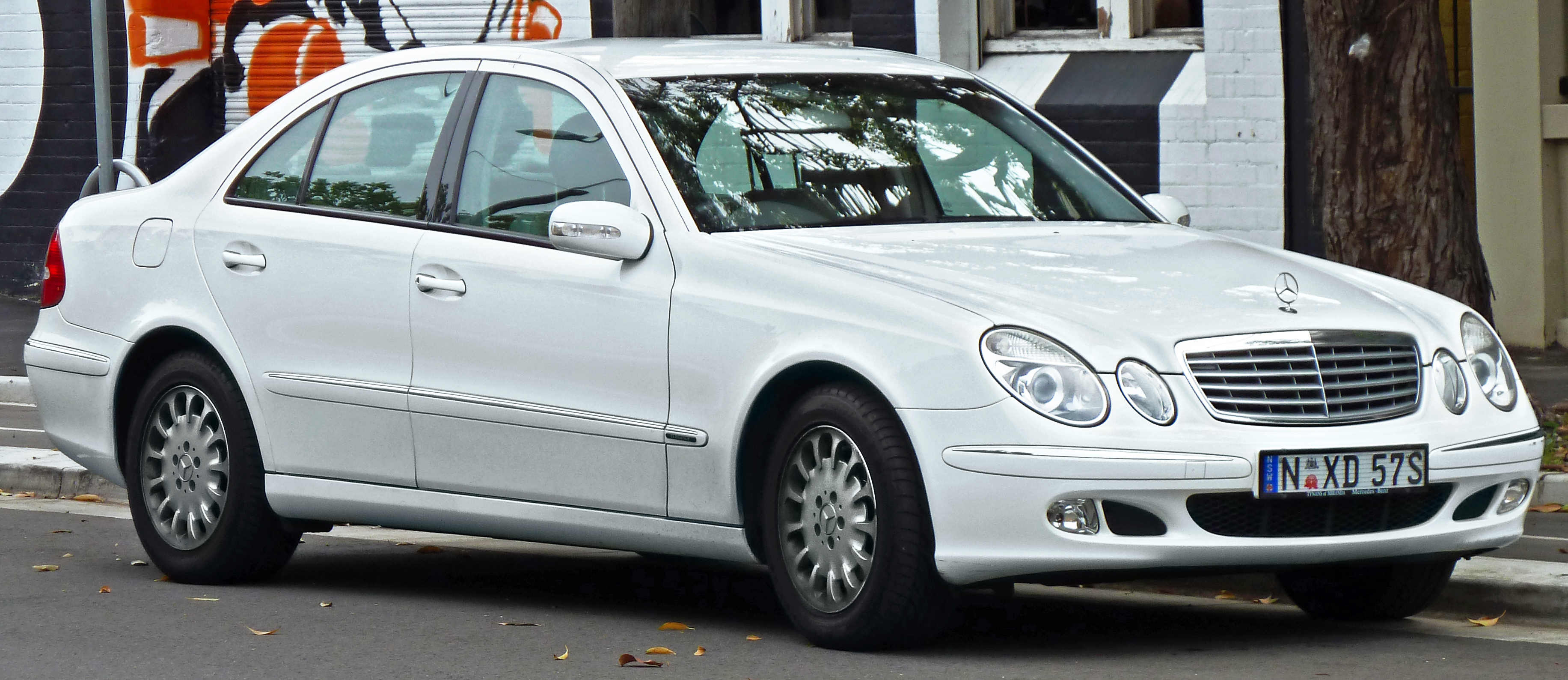 2002–2005 Mercedes-Benz E 320 (W211) Elegance sedan. Photographed in Woolloomooloo, New South Wales, Australia.